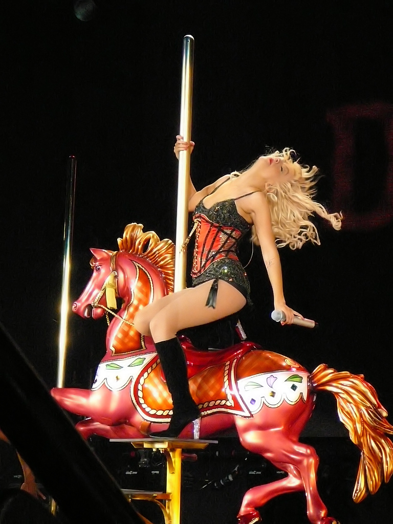 Christina Aguilera performing "Dirrty" during her "Back to Basics Tour".